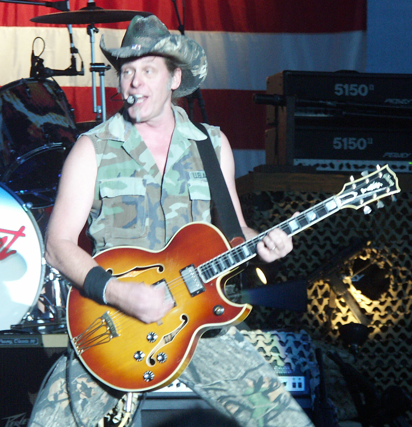 Taken at Ted Concert June 16, 2007 in W. Fargo, ND. Photo by Matt Becker